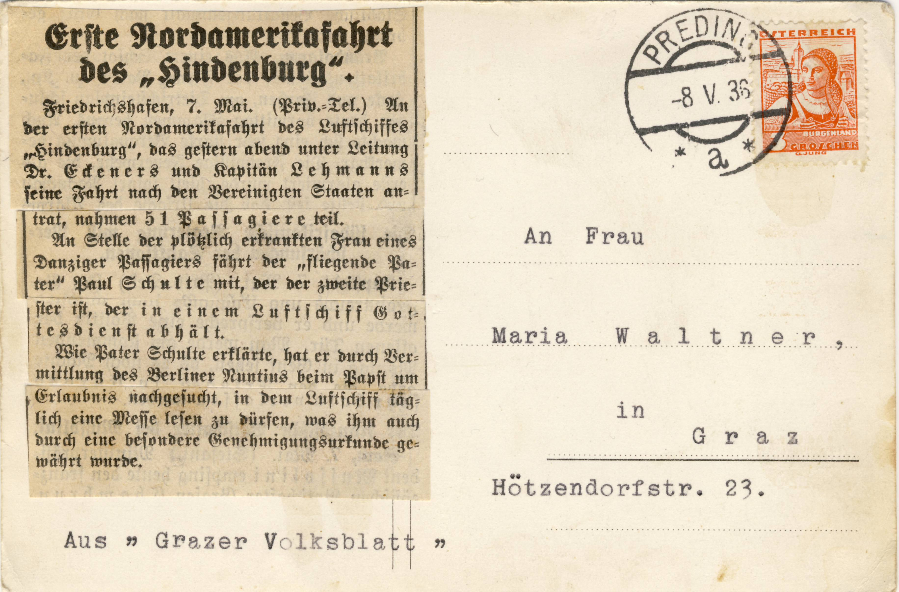 The flying priest